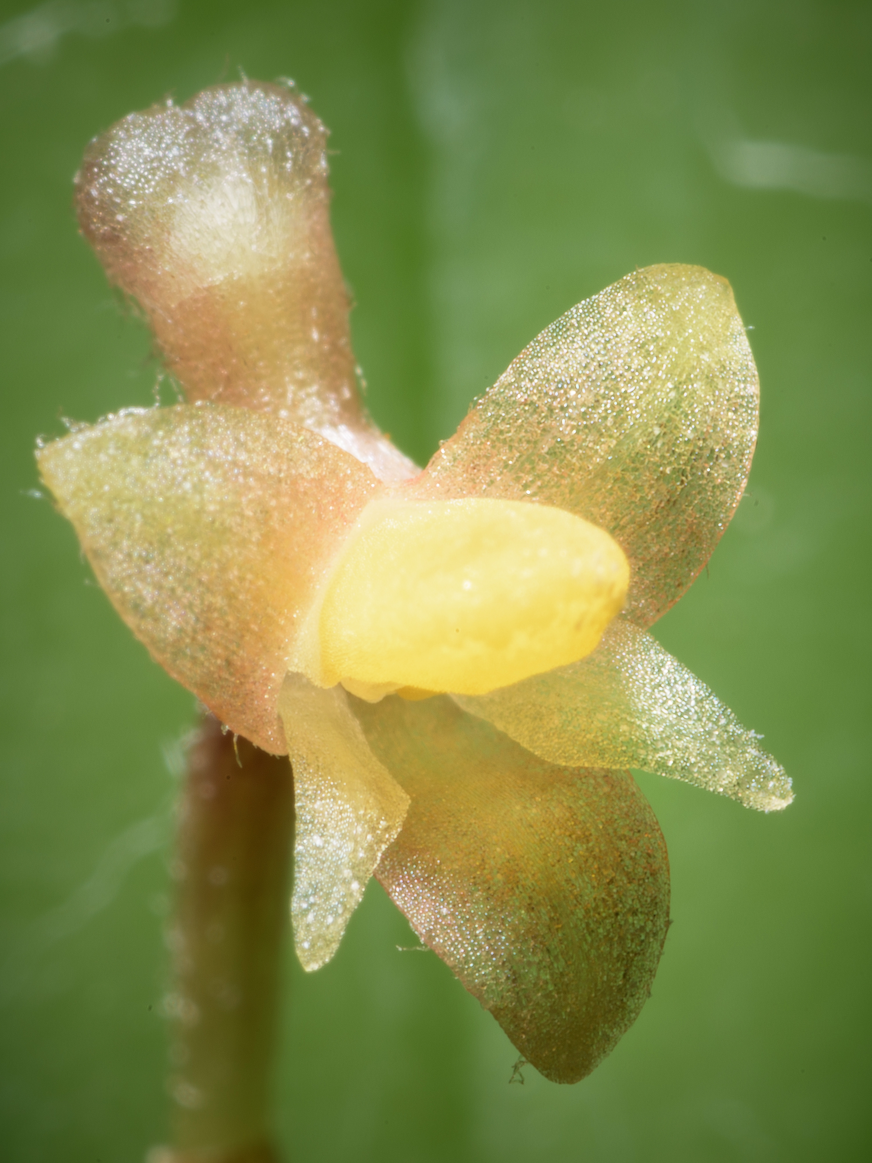 Ceratostylis backeri (wild Java) J.J.Sm., Bull. Jard. Bot. Buitenzorg, sér. 2, 9: 52 (1913)